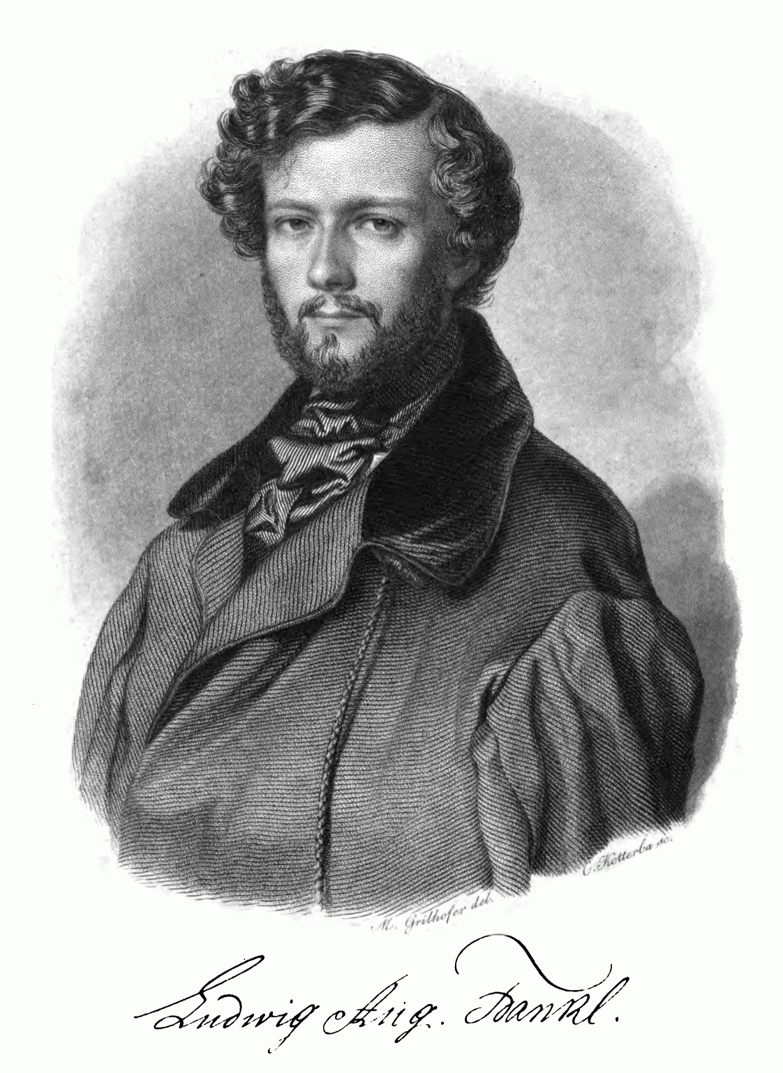 Steel engraving Ludwig August von Frankl